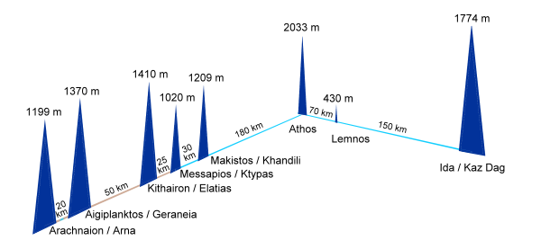 fire beacon, fire mail, light signal - Troy - Aischylos, Orestie, Agamemnon 282 ff. - illustration